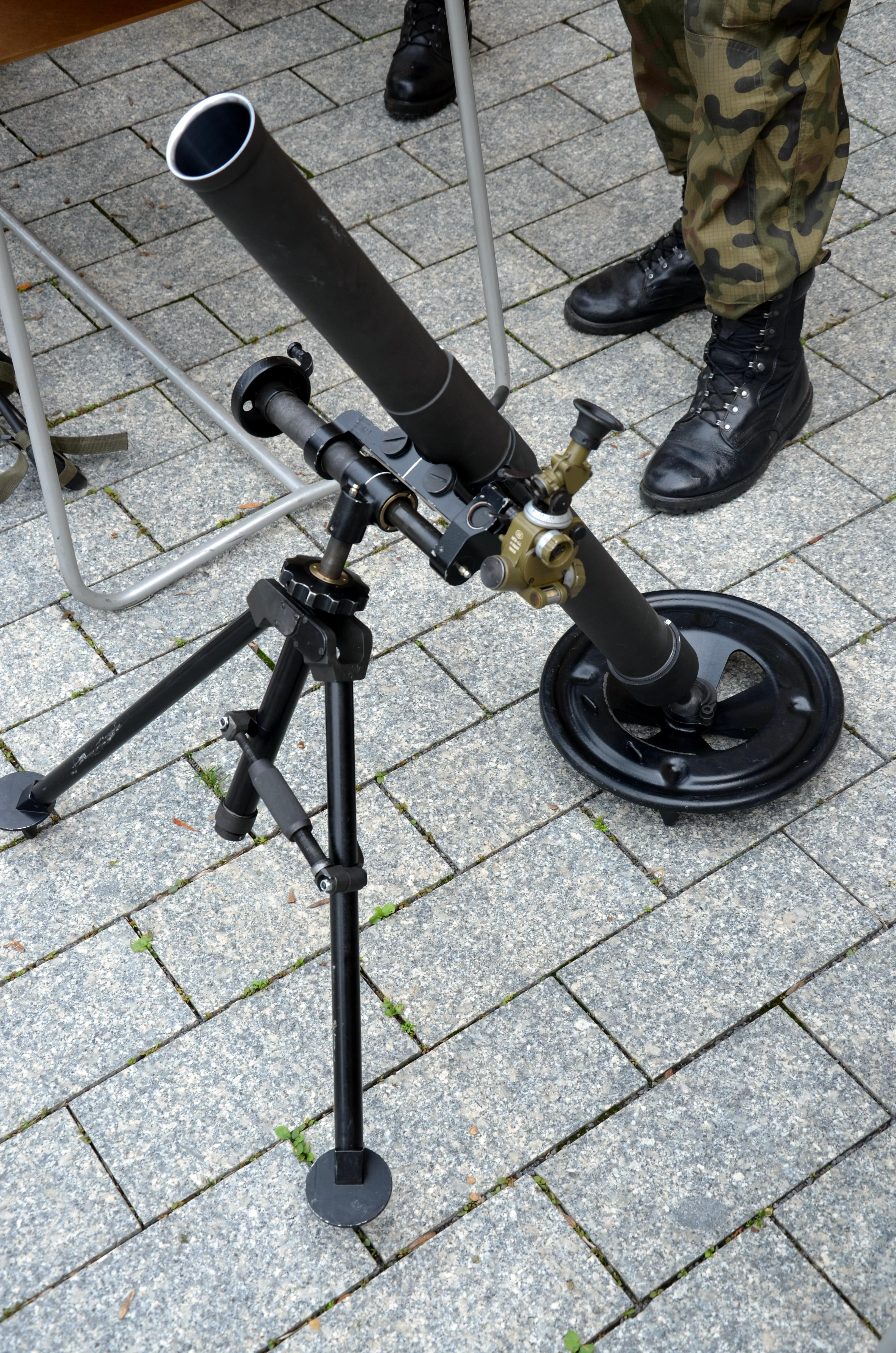 5 Podhale Battalion